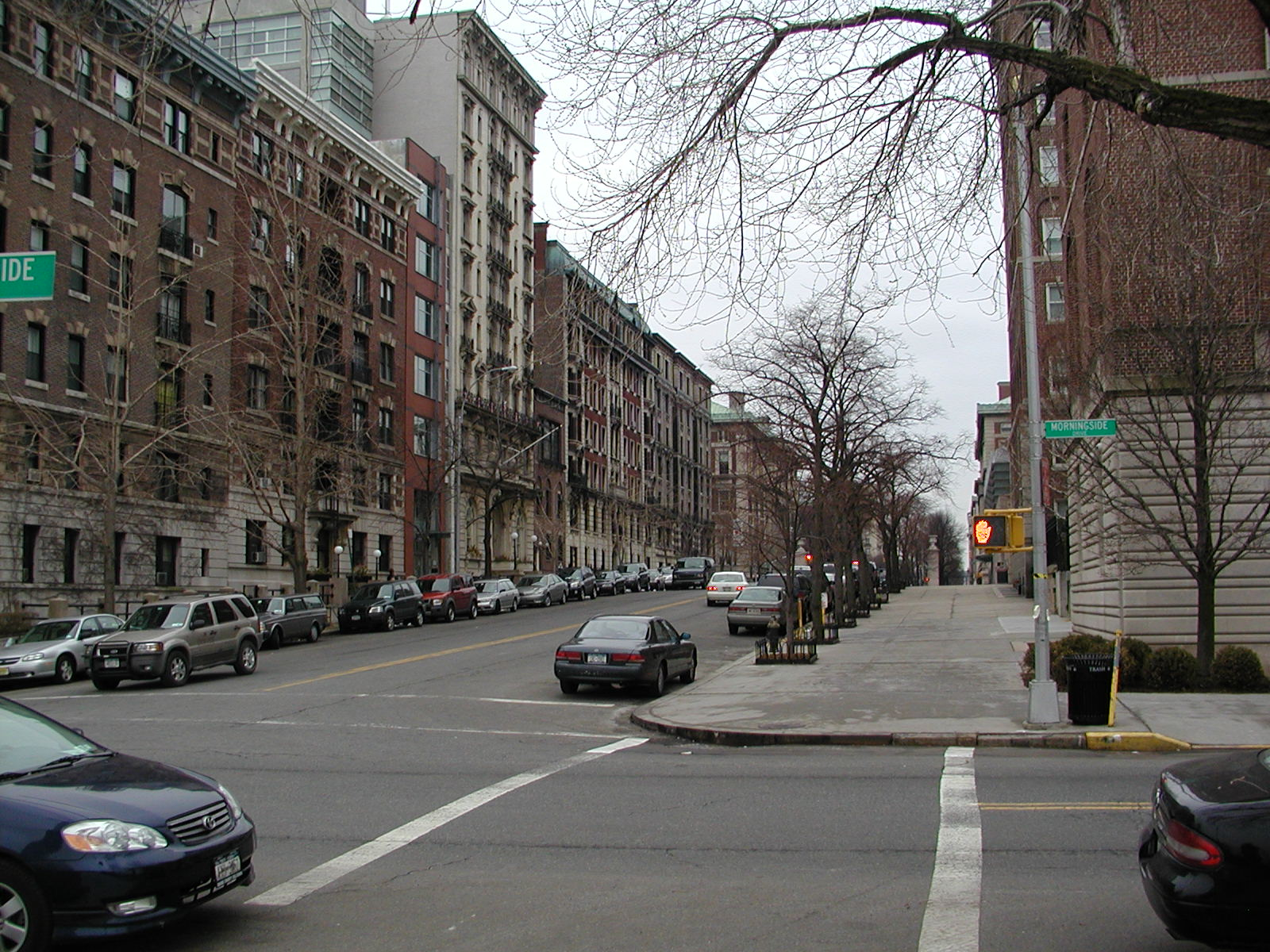 Looking west across Morningside Drive towards Amsterdam Avenue at residental buildings on West 116th Street opposite Columbia University.